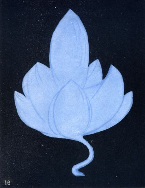 A thought form from Thought-Forms, by Annie Besant & C.W. Leadbeater.